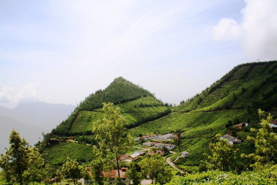 Taken from Kolukku mala